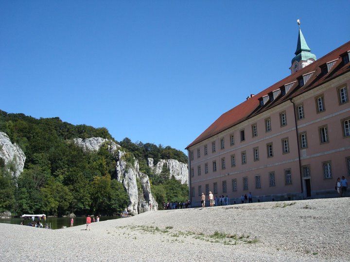 Weltenburg, Germany - Rajesh Kakkanatt - Aug. 2007